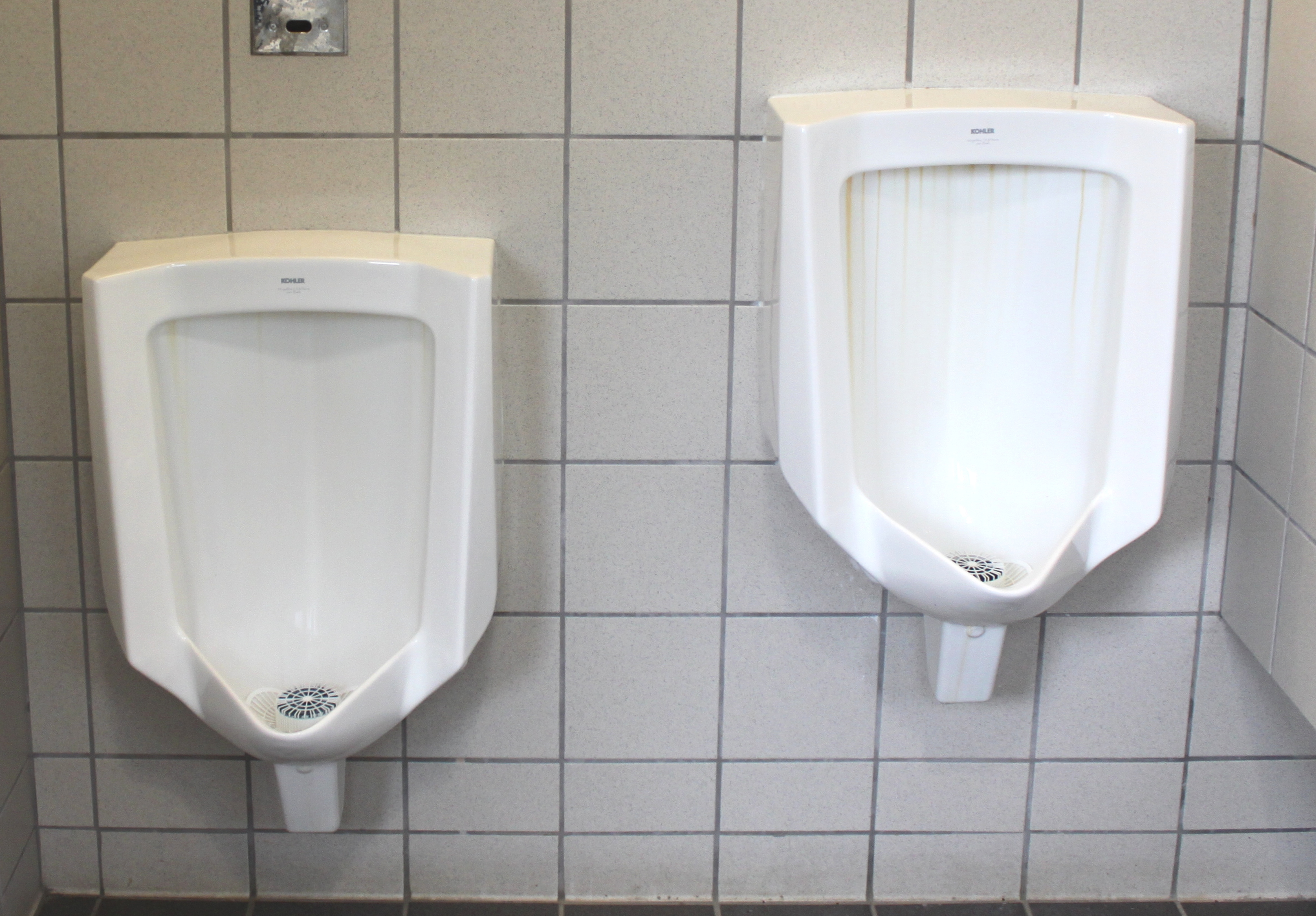 Urinals manufactured by the Kohler Company, Island Lake Recreational Urinals manufactured by the Kohler Company, Island Lake Recreational Area, Green Oak Township, Michigan.